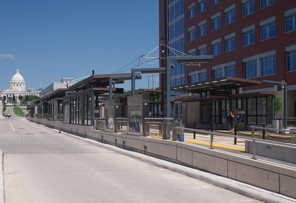 10th Street Metro Transit Station with the Minnesota Capitol in the background, St Paul, Minnesota, USA. View looking northwest.